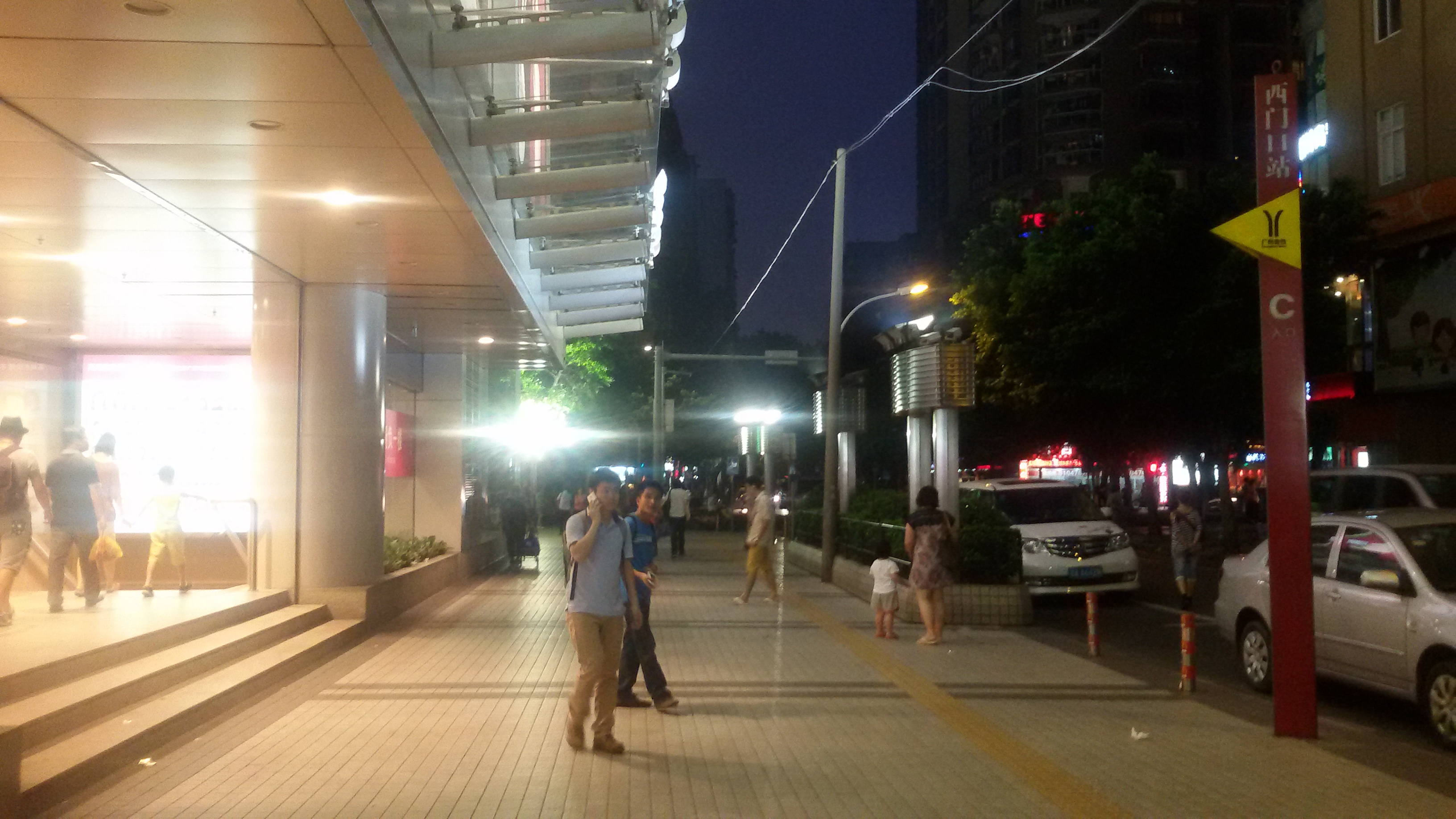 Exit C, Ximenkou Station, in Guangzhou Metro.